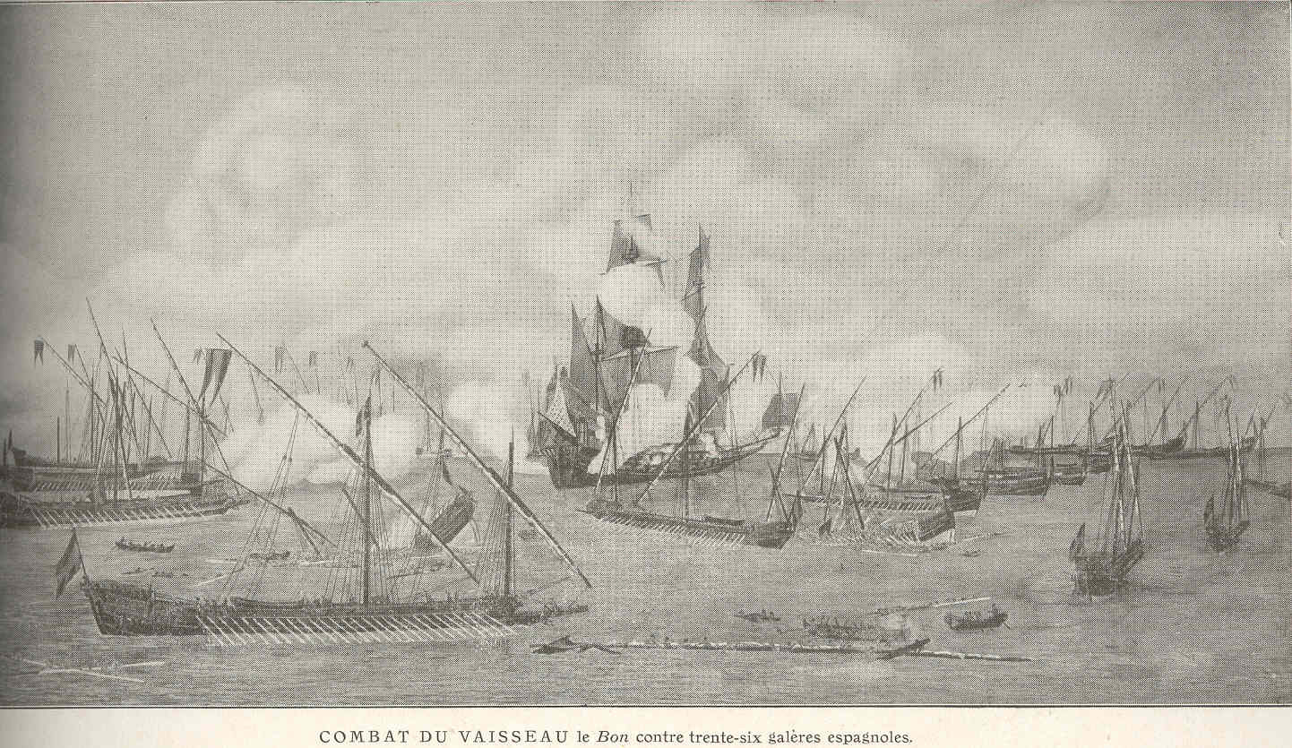 Le vaisseau le Bon, commande par le comte de Relingues, se trouvant en calme pres de l'Ile d'Elbe, le 10 juillet 1684, trent-six galeres espagnoles sorties de Porto-Ferajo viennent l'attaquer. Il se defend si vigoureusement, qu'apres cinq heures de combat, le vent s'etant eleve, il gagne la large laissant derriere lui douze des galeres couples ou gravement avariees. C'est a partir de cette epoque que les galeres furent reconnues impuissantes les vaisseux de haut bord (Musee de Marine Subject: Sailing ships, Bon (Ship), Naval battles Tag: Vessels